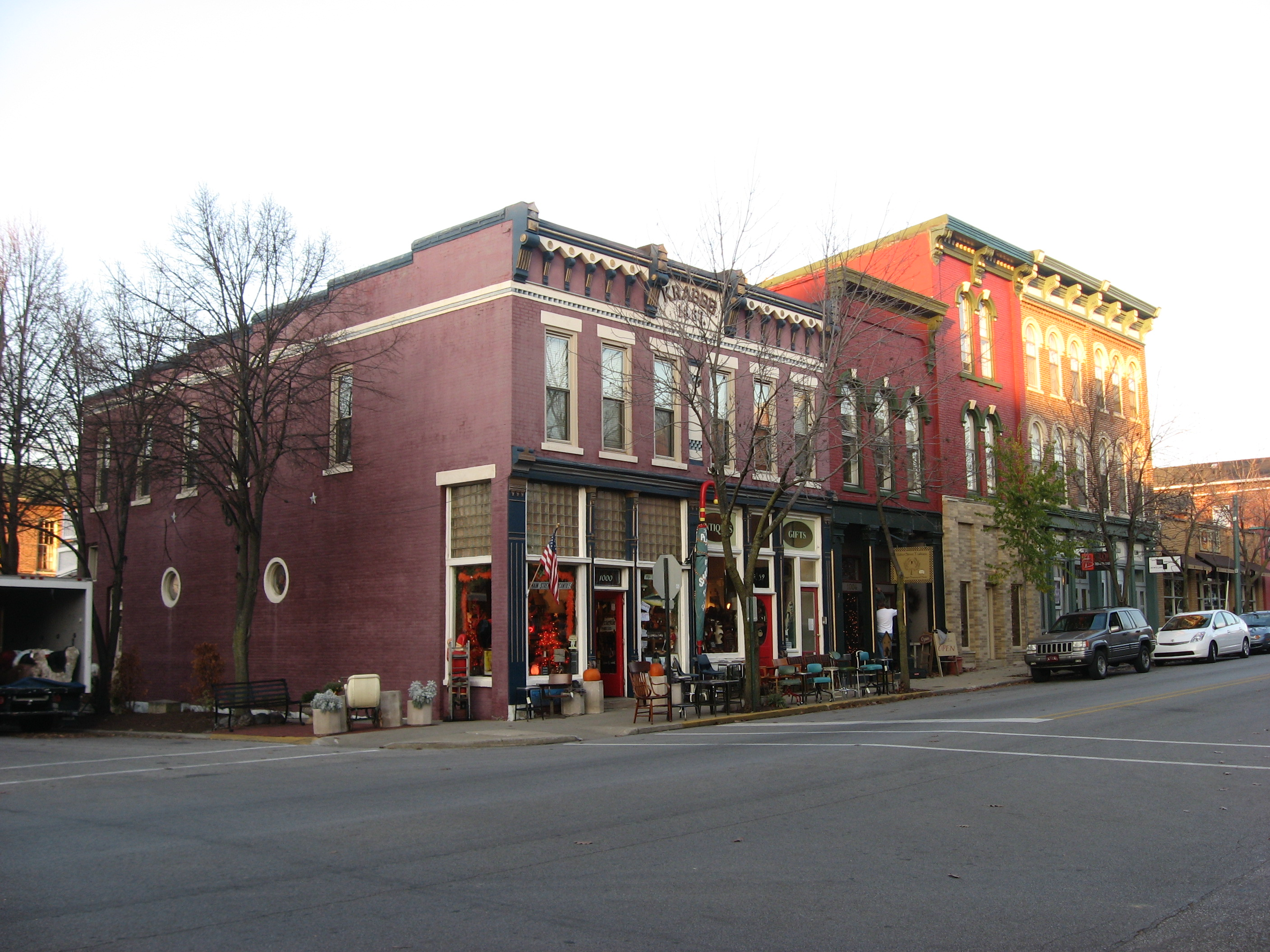 Buildings on the northern side of the 1000 block of Main Street in Lafayette, Indiana, United States. This area is part of the Upper Main Street Historic District, a historic district that is listed on the National Register of Historic Places.